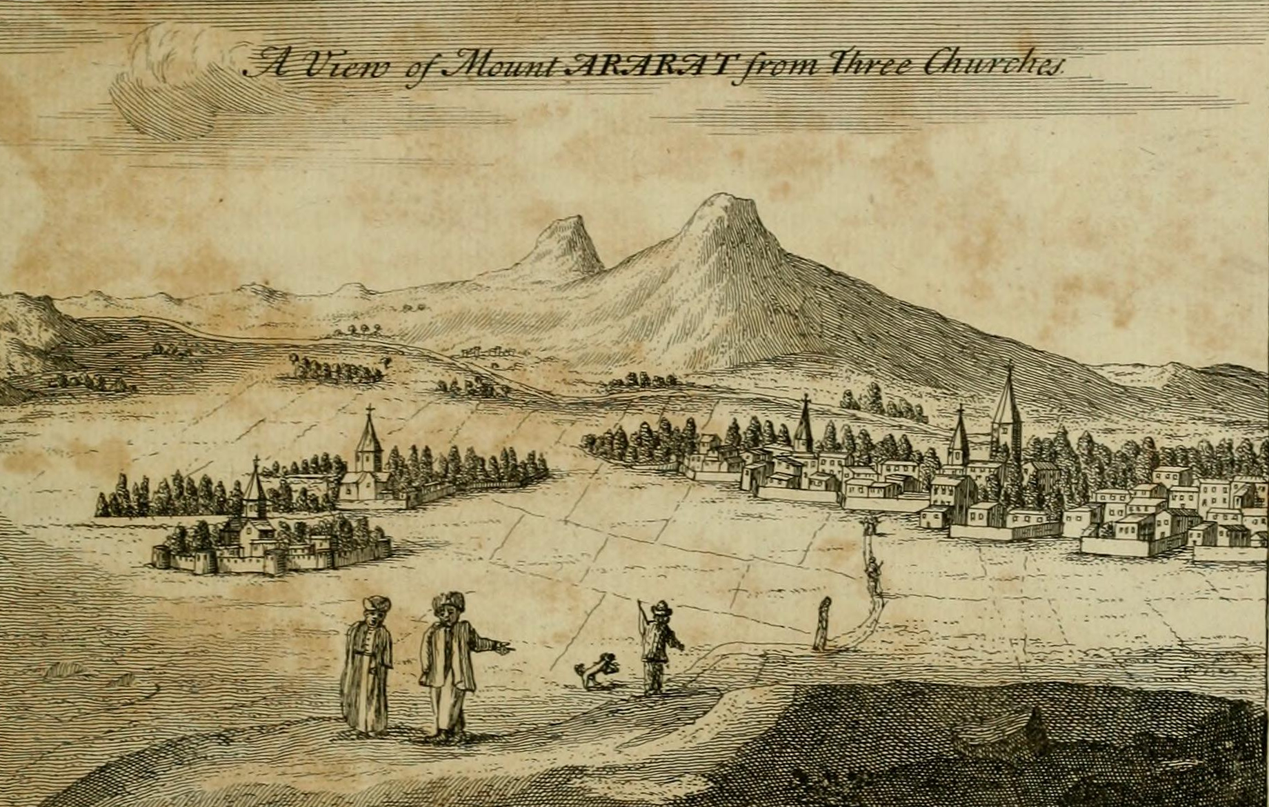 original caption: "A view of Mount Ararat from the Three Churches"